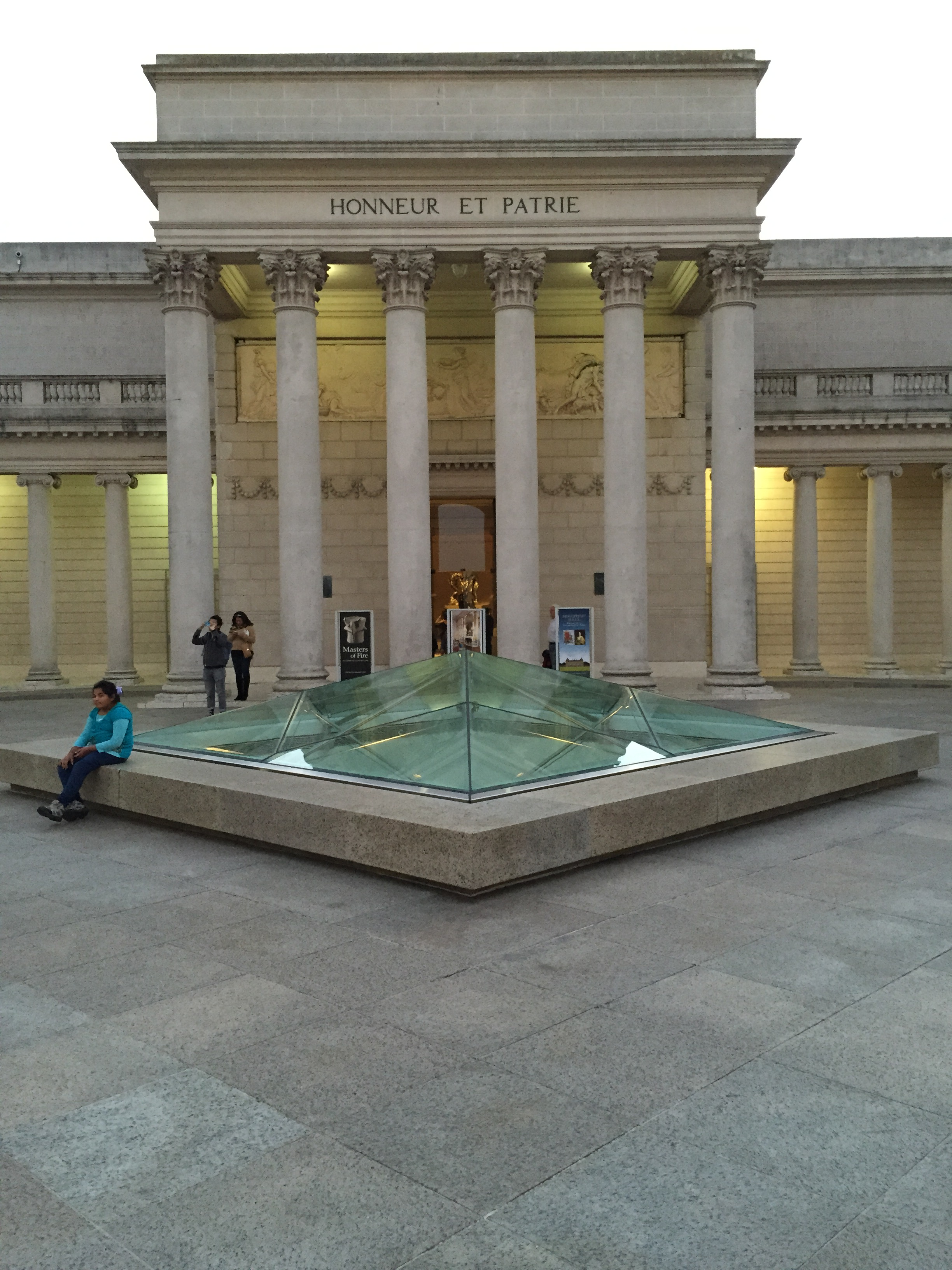 California Palace of the Legion of Honor